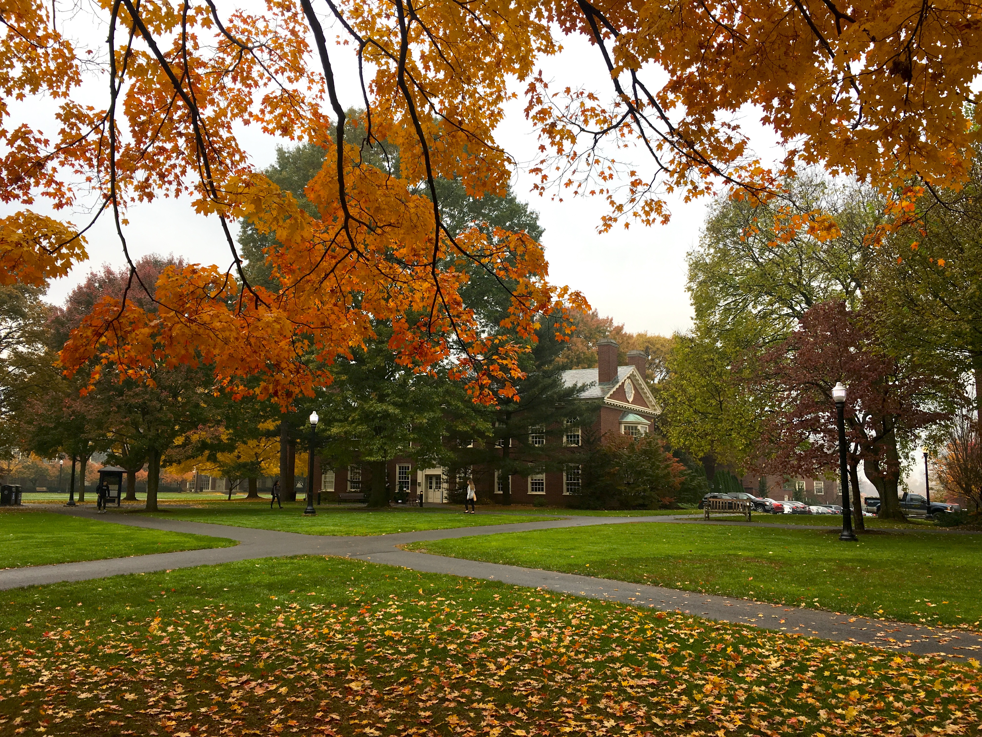 Fall on the Engineering Quad looking at the Vaughn Literature Building, Bucknell University